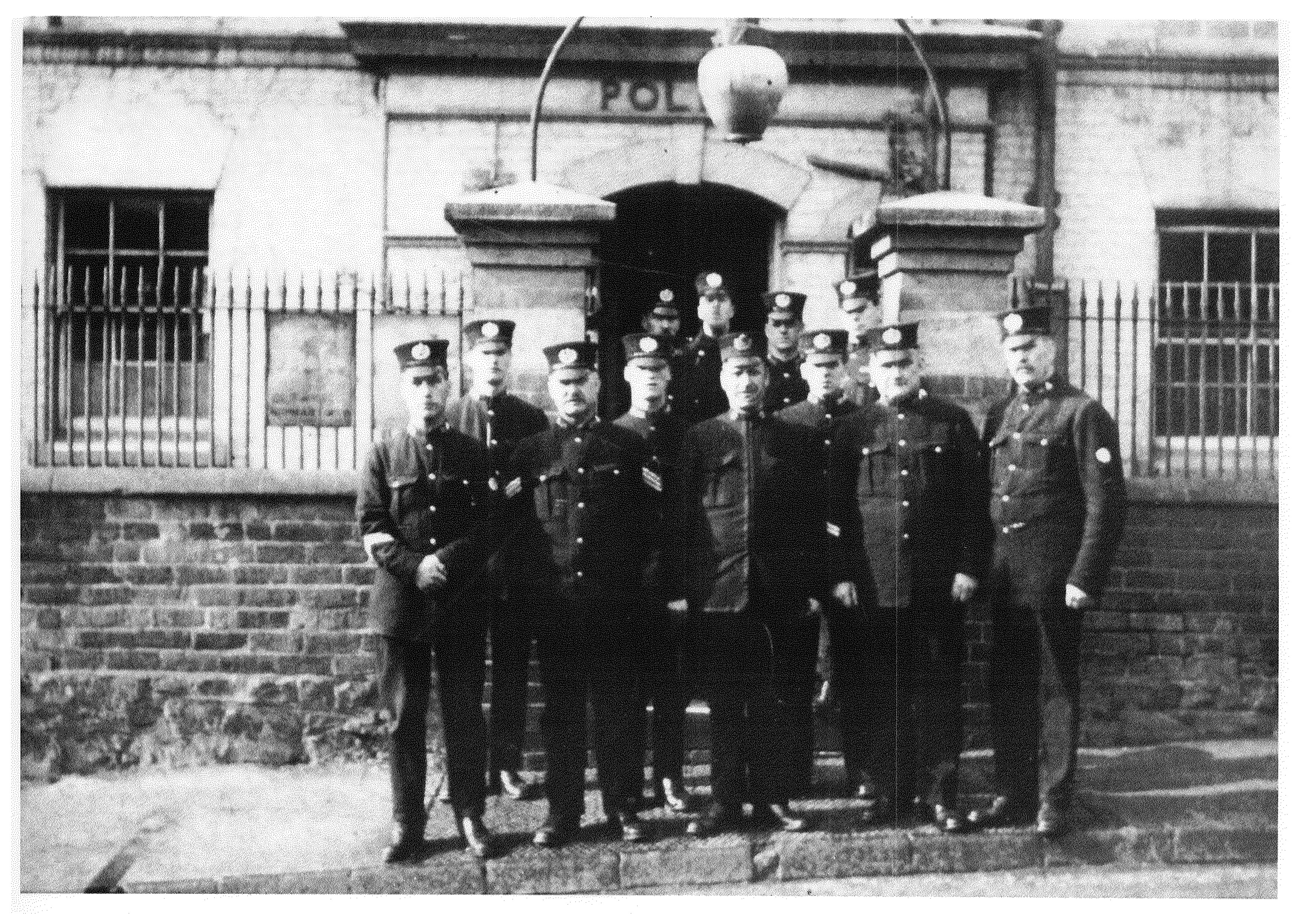 Here is a terrific historical photograph showing officers outside Sedgley police station more than 50 years ago. see File:Day 232 - West Midlands Police - Sedgley police station 2012 (7822042922).jpg for a 2011 version.